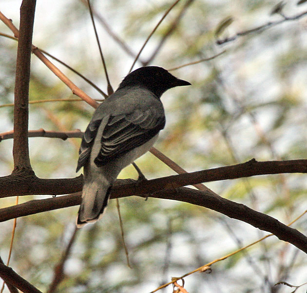 Black-headed Cuckooshrike Coracina melanoptera at Sindhrot in Vadodara District of Gujarat, India.